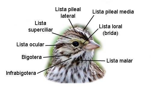 Diagram of the stripes of a bird head (labels in Spanish).